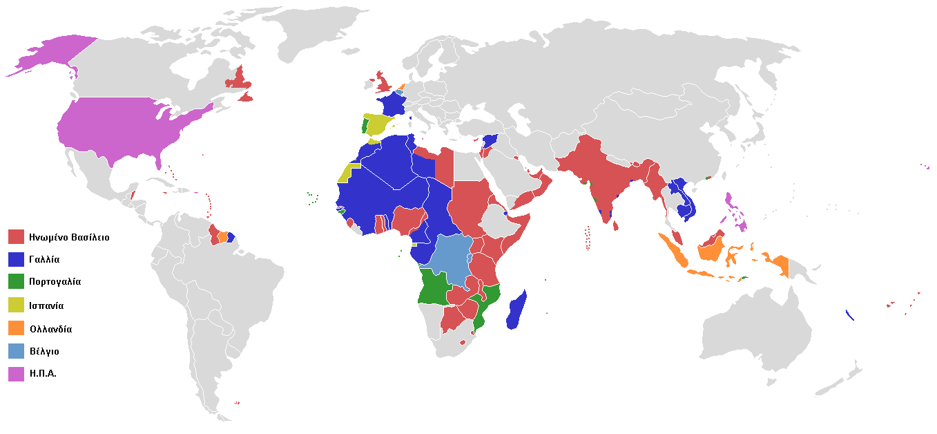 The colors represent the colonies of various nations in 1945, and the borders the colonial borders of that time